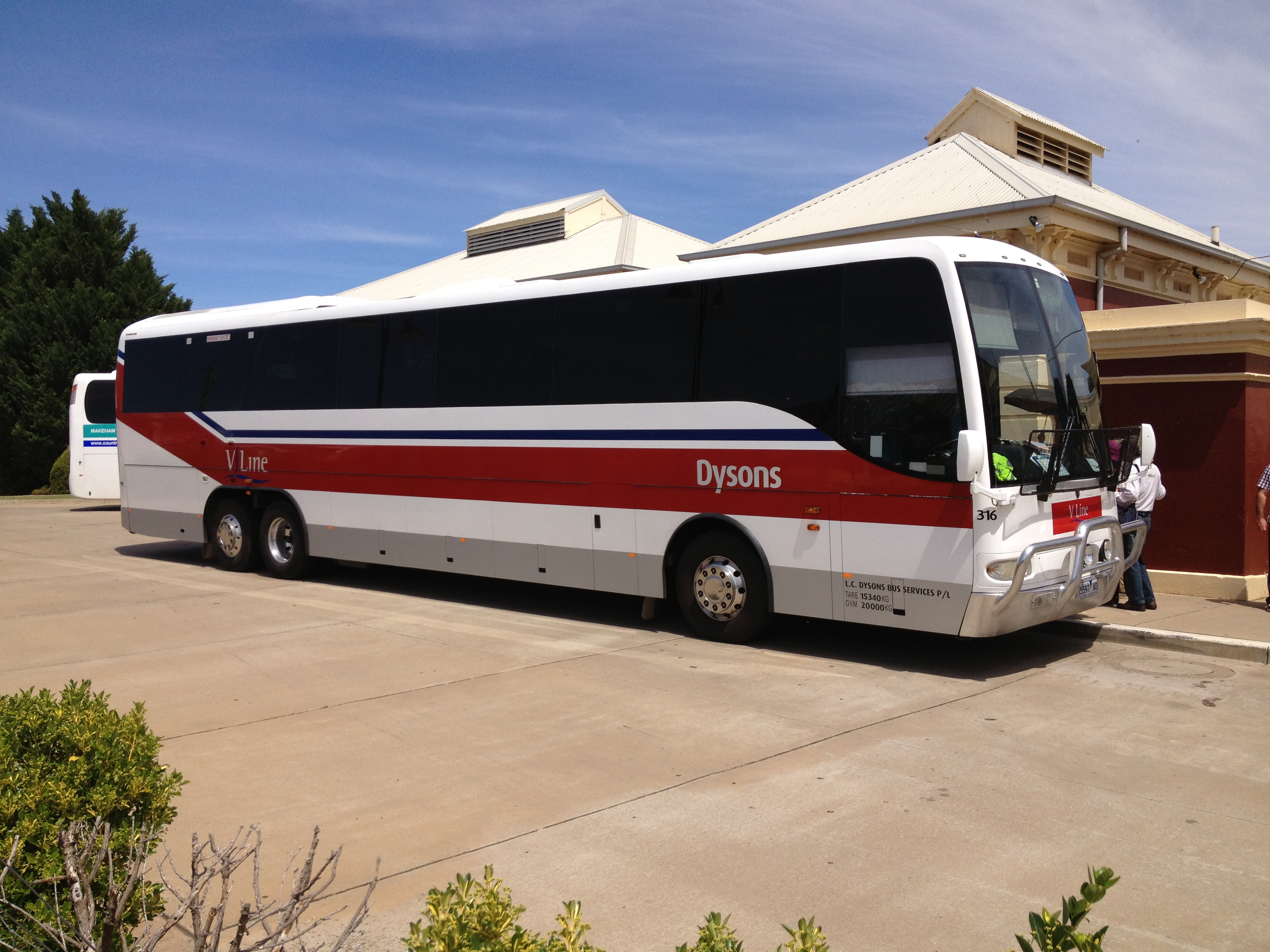 Dyson's Bus Services (5597 AO), in V/Line livery, Coach Design bodied Scania K124EB at Wagga Wagga Railway Station.